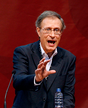 Francisco Louçã in VI National Convention of Left Bloc.